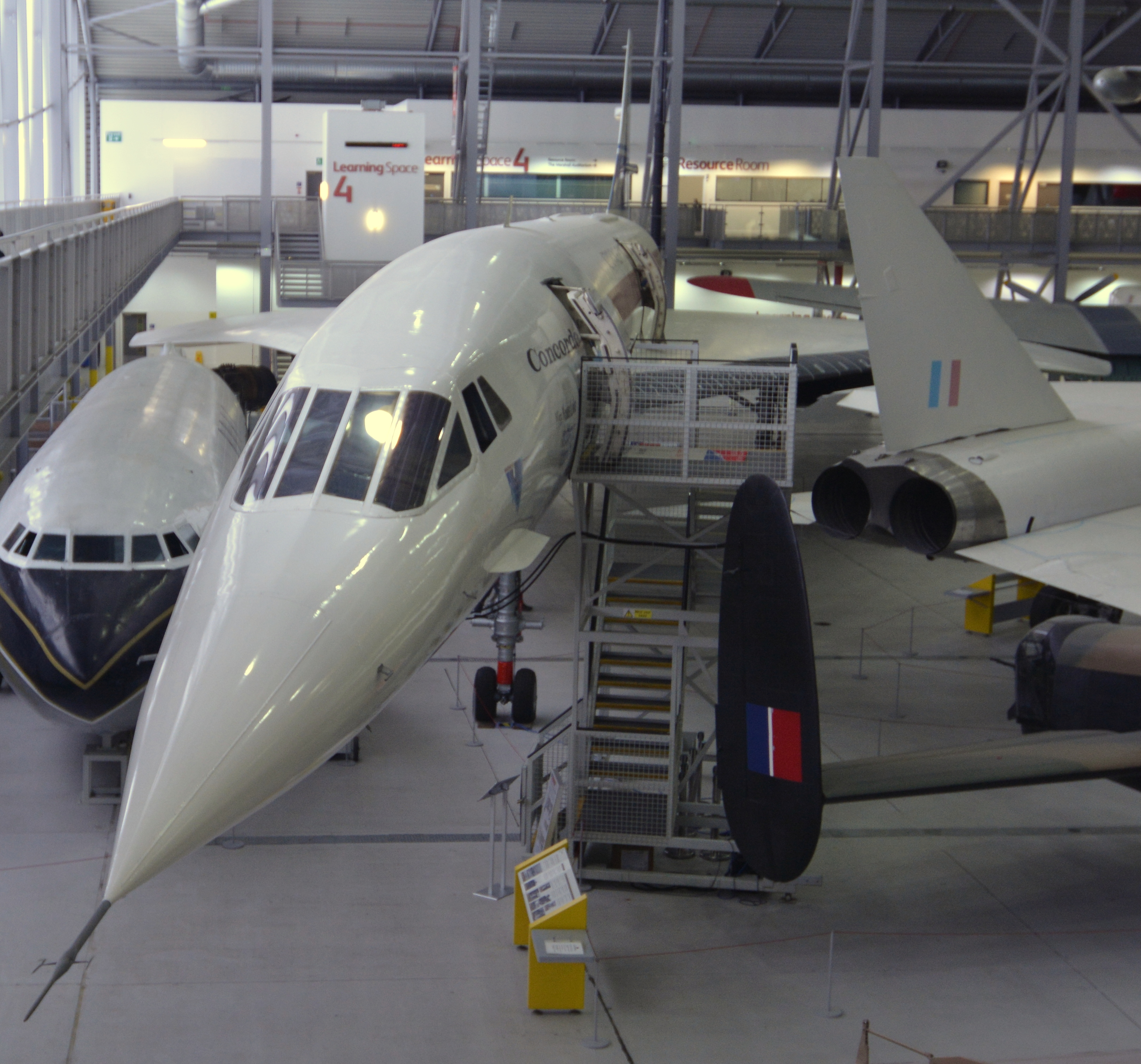 Concorde G-AXDN (101) on display at Imperial War Museum, Duxford, England.